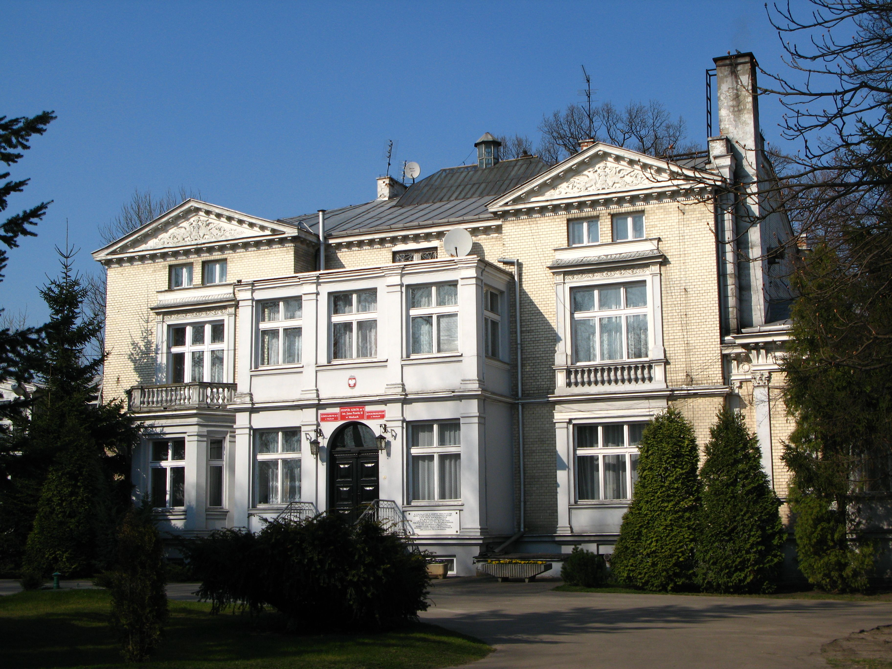 Briggs Palace in Marki, Poland